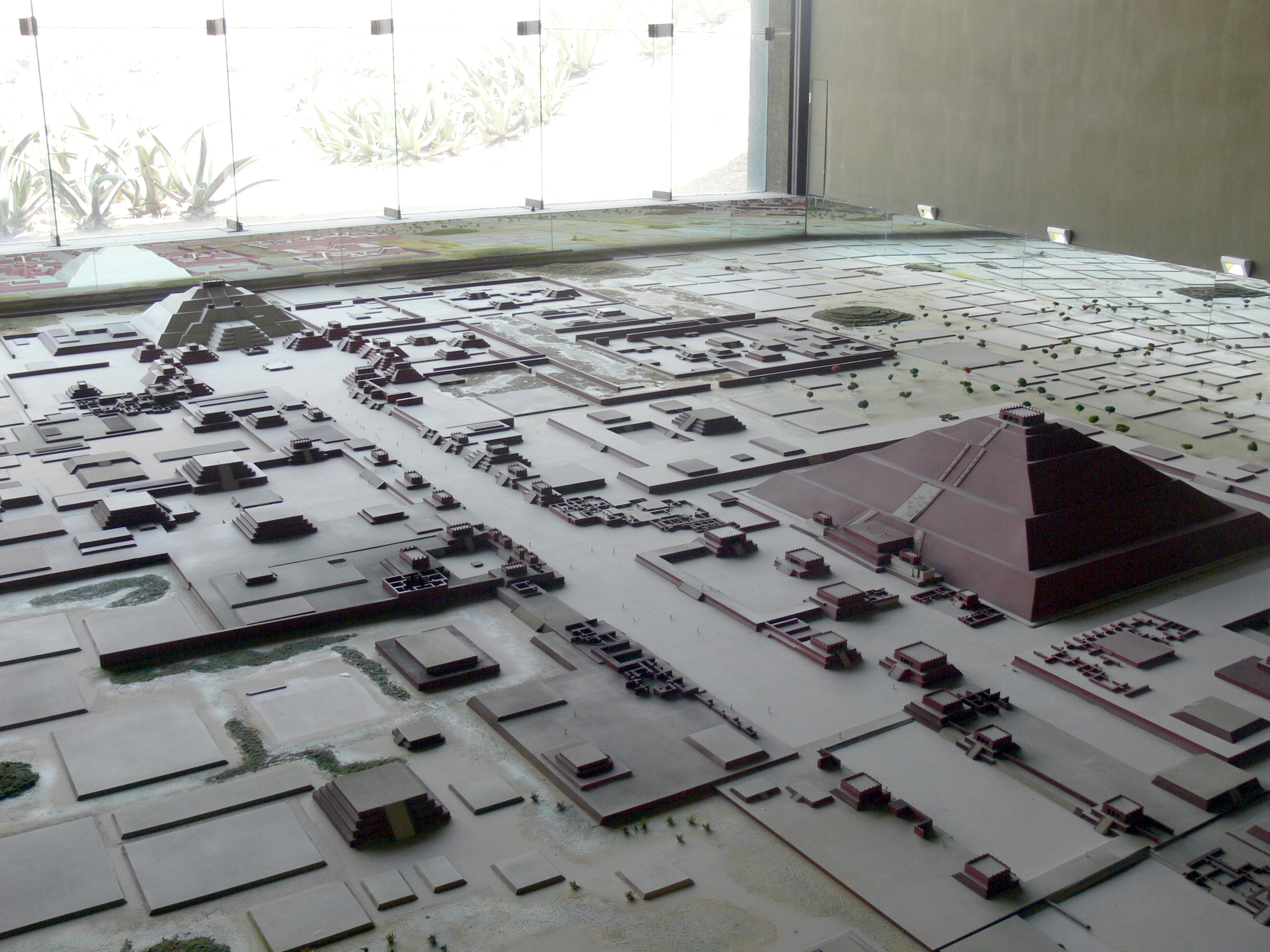 Museo del sitio, Teotihuacán. Reconstruction of the central parts of the city.